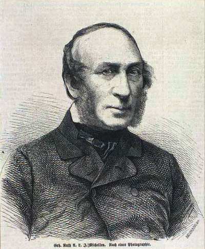 Andreas Ludvig Jacob Michelsen